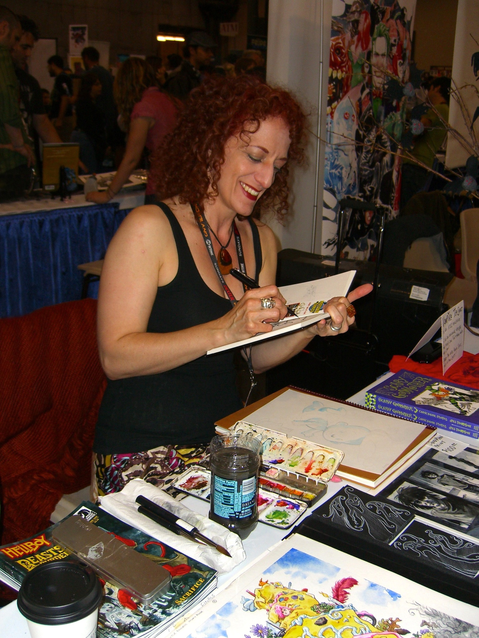 Comics creator Jill Thompson at the New York Comic Con, October 15, 2011. This photo was created by Luigi Novi. It is not in the public domain, and use of this file outside of the licensing terms is a copyright violation.